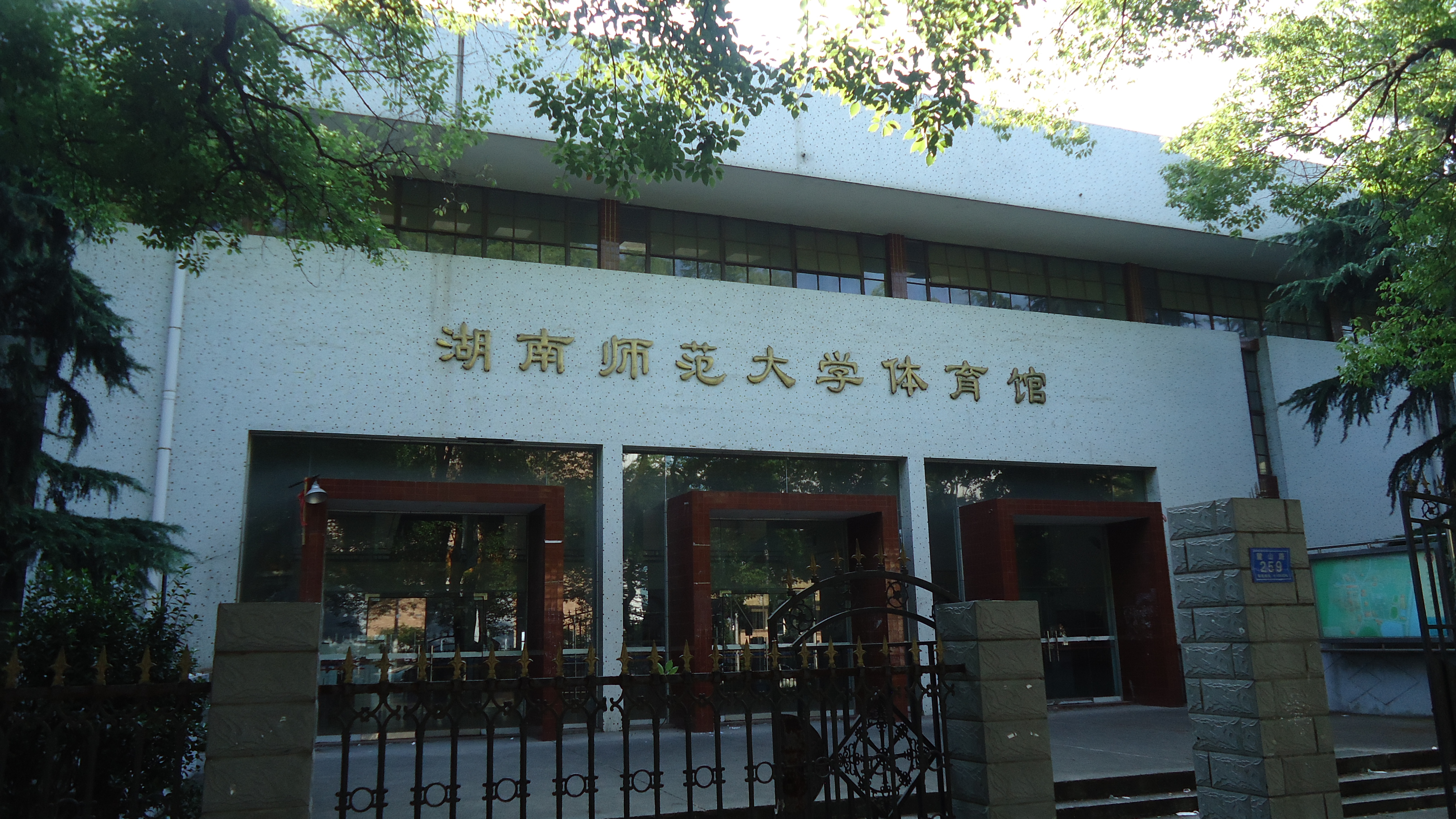 Hunan Normal University,founded in 1938, is a higher education institution located in Changsha, Hunan Province, People's Republic of China. The University is a national 211 Project university, one of the country's 100 key universities in the 21st century that enjoy priority in obtaining national funds.